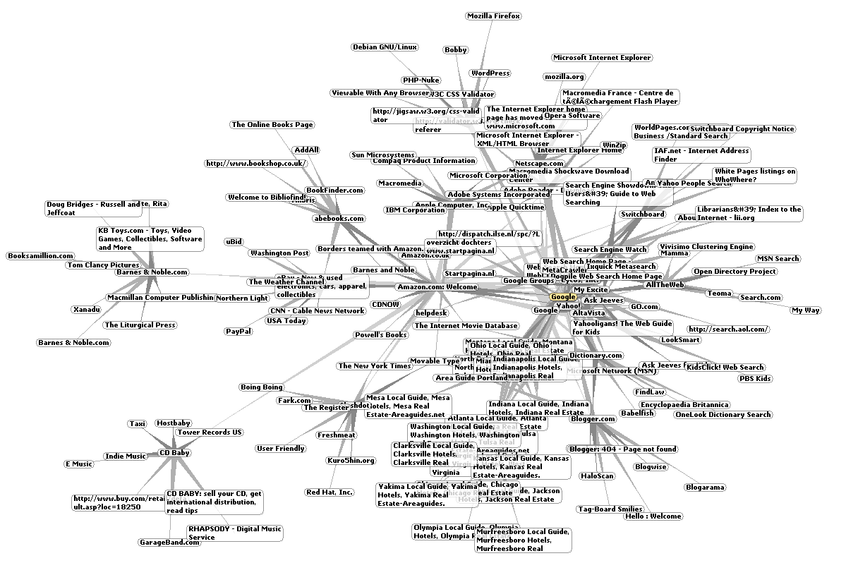 Google as part of the World Wide Web A similar image for Wikipedia can be found at: Image:WorldWideWebAroundWikipedia.png Image:WorldWideWebAroundGoogle.png